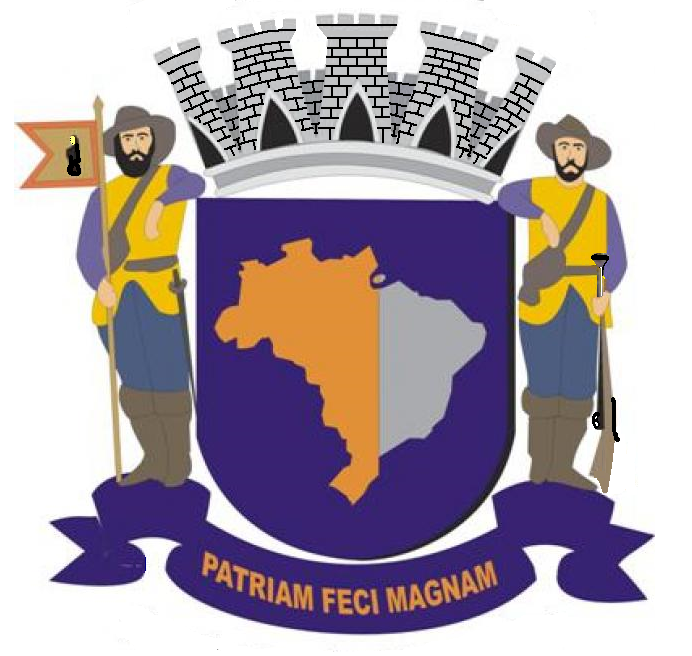 (Brasão do município de Santana de Parnaíba, estado de São Paulo, Brasil. Fonte: site municipal. Coat of Arms of the city of Santana_Parnaíba, São Paulo state, Brazil. Based on the municipal website. Emerson Template:PD-Braz)